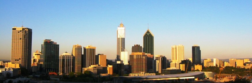 A photo of the Perth, Australia skyline from Kings Park. Released into the public domain on Stock.xchng by its photographer, garytamin, and further permission obtained by User:Mark from him to include the image in Wikipedia (email releasing this image into the public domain forwarded to at 23:49 2 April 2006 UTC). His collection of photographs can be found at Sxc.hu or .